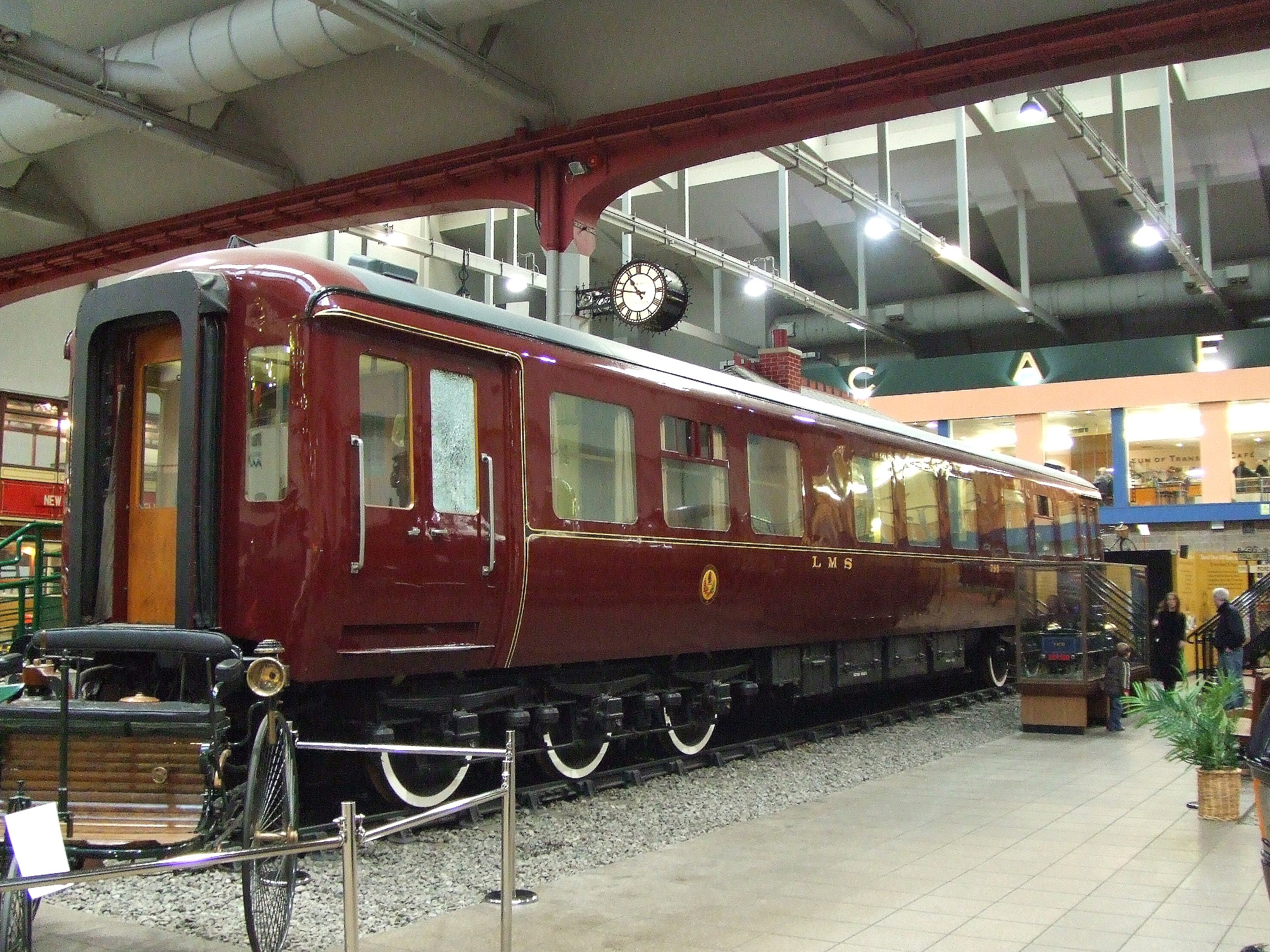 LMS Stanier Royal Saloon No.798 built 1941 at LMS (Wolverton) (Diagram 2054, Lot 1167) as an armoured coach for King George VI and, when the armour was removed post-war, the coach was redesignated Diagram 2054A; at the Glasgow Transport Museum; 03/07.